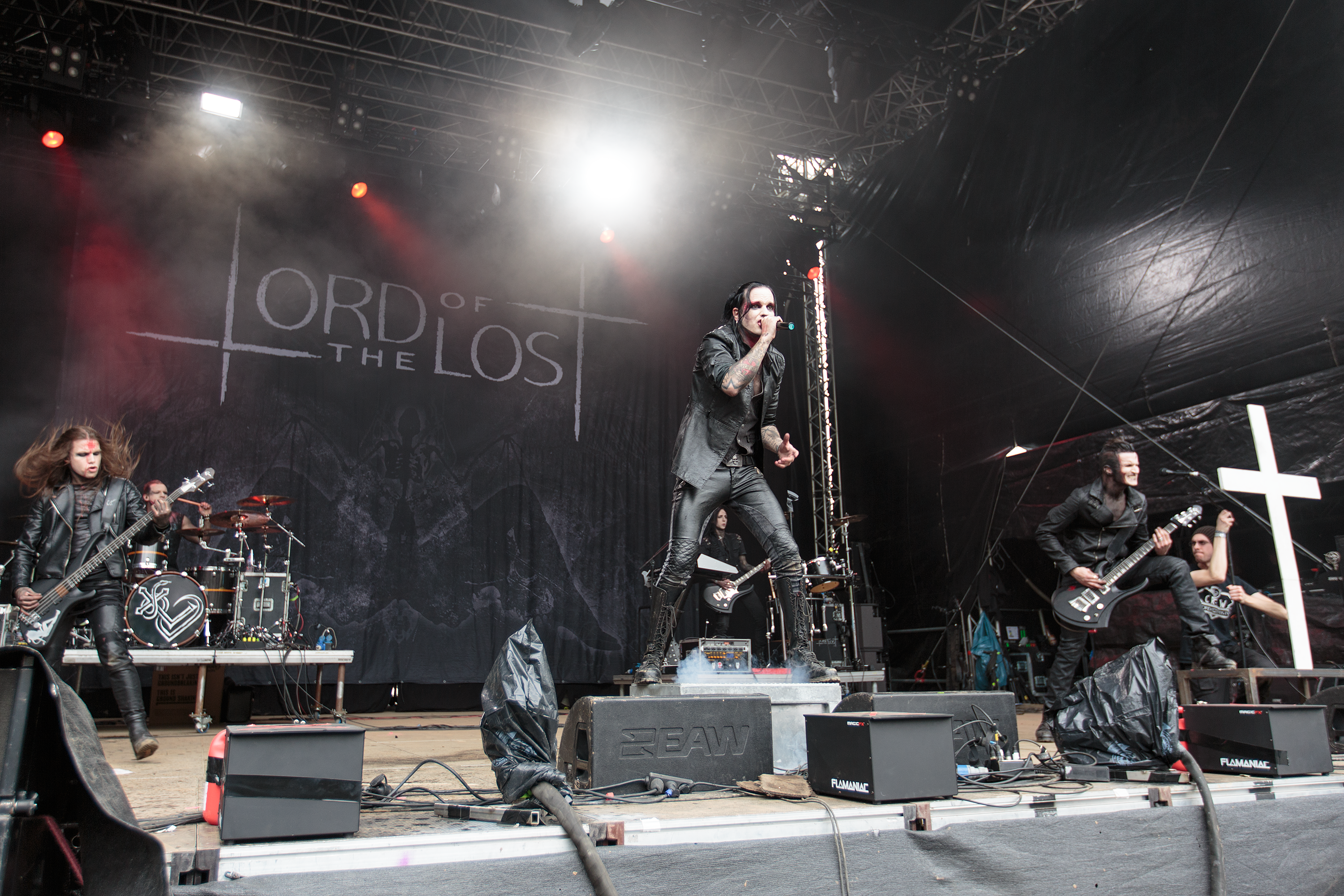 Lord of the Lost at the Hexentanz Festival 2015 in Losheim, Germany.